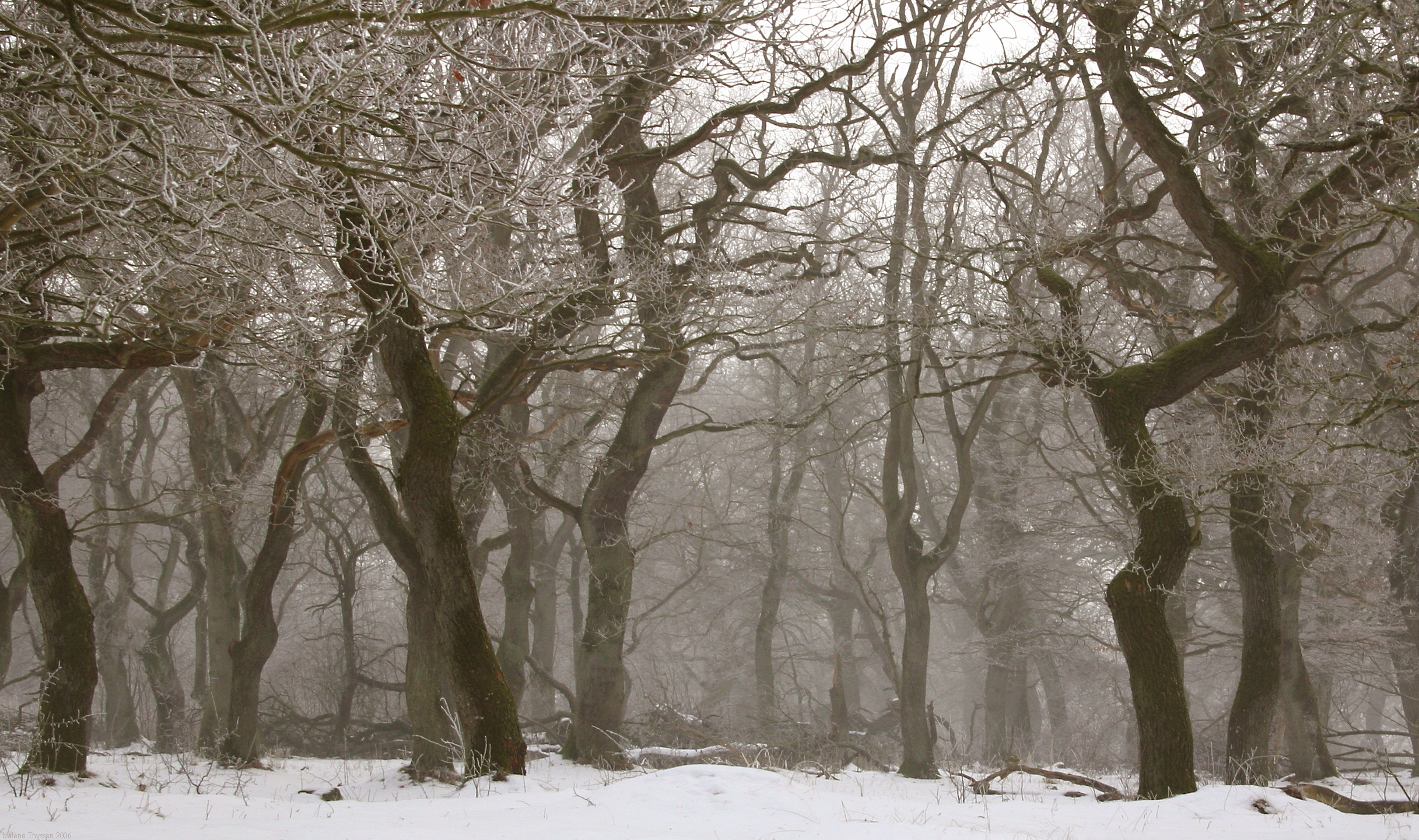 Oak (Quercus robur) forest shaped by grazing animals at Langå, Denmark – a very cold day with frosting mist in January.